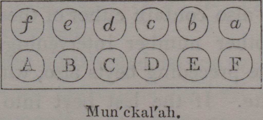 A game board in which are twelve hemispherical hols in two equal rows. Engraving (prints).